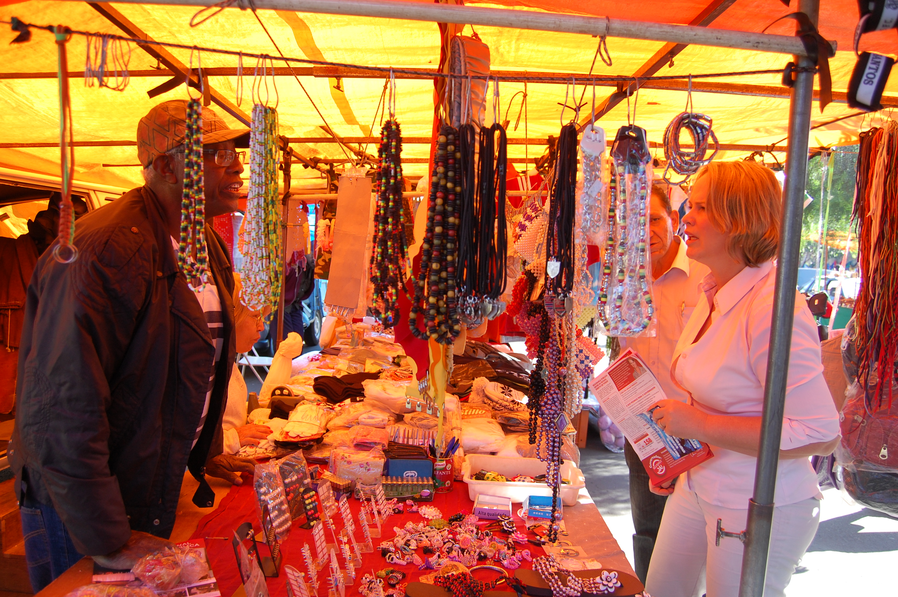 Street vendors in Hortolândia, São Paulo, Brazil.